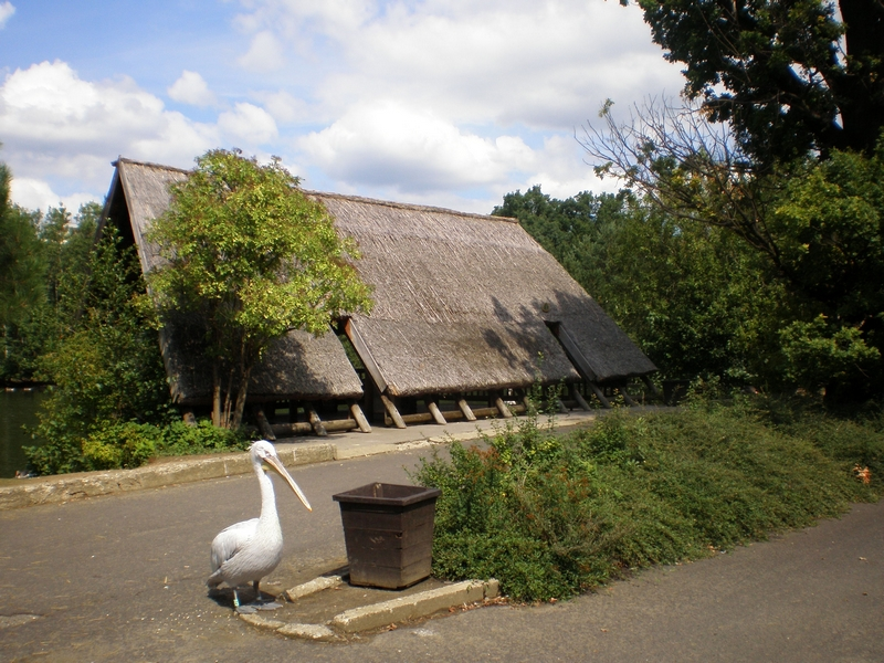 Zoopark Chomutov, lake vista & pelican